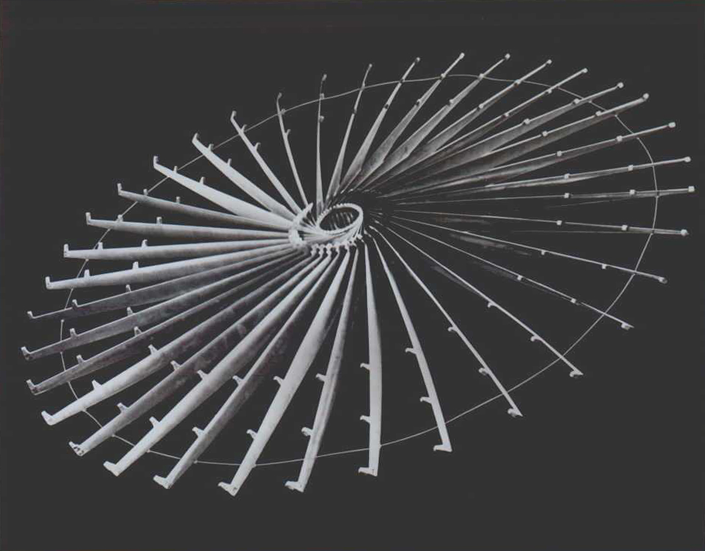 Caption Homing overlay experiment open web from Licensing 2. Information presented on the SMDC home page is considered public information and may be distributed or copied. Use of appropriate byline/photo/image credit is requested.